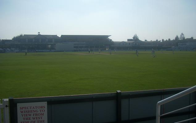 County Ground, Northamptonshire CCC, Northampton Sept. 2008